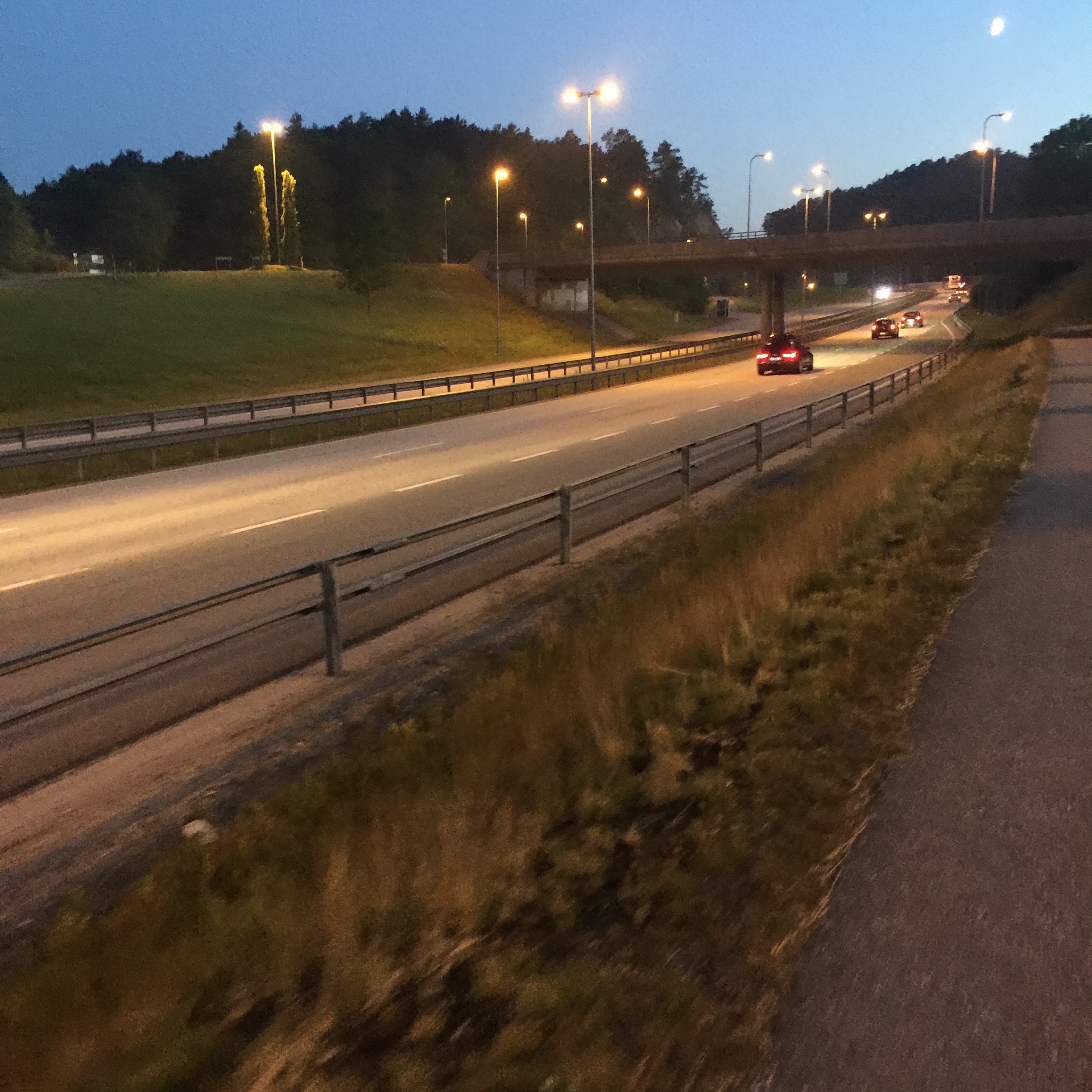 E18 with Hånes in Kristiansand